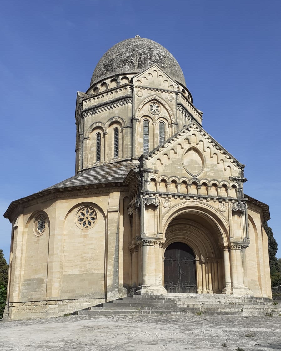 Cimiterju ta’ Braxa